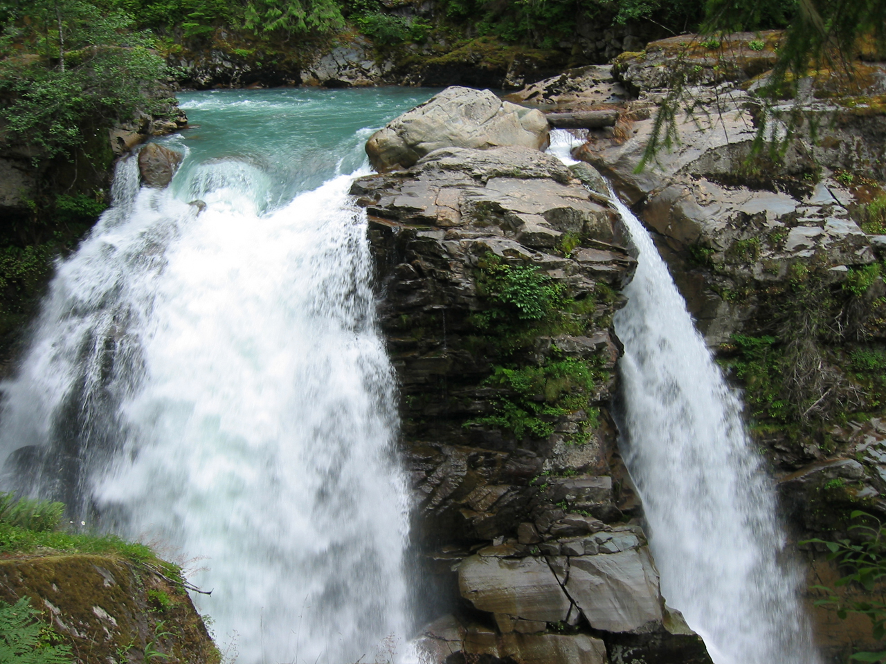 Nooksack Falls on the Nooksack River, Washington, United States